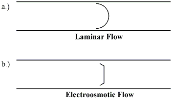 I made this file